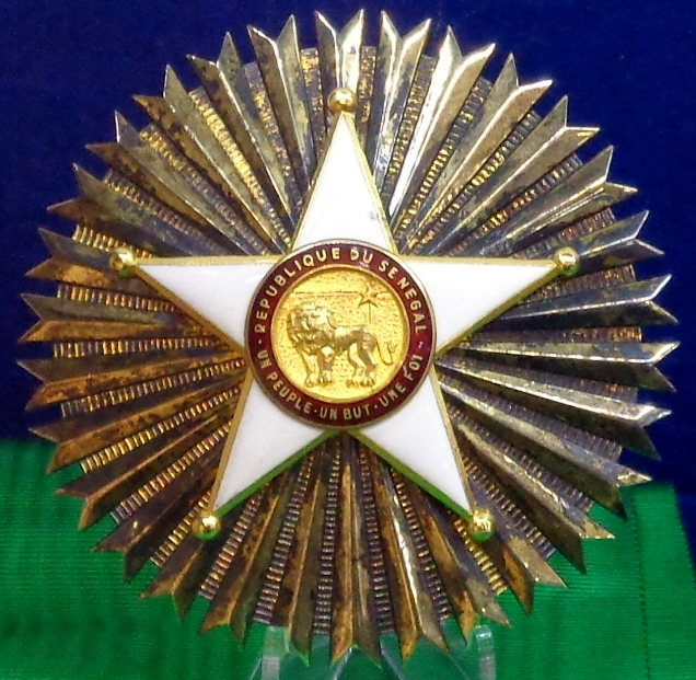 National Order of the Lion, star of Grand Cross. Senegal. The exhibition of the Tallinn Museum of Orders of Knighthood, Estonia.